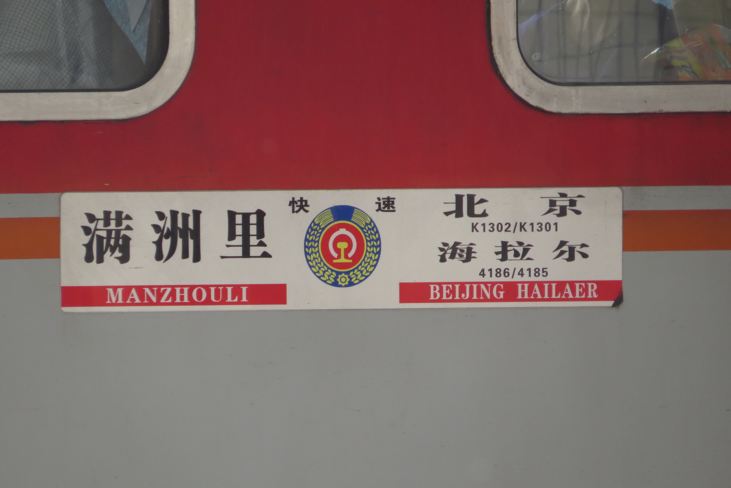 Beijing to Manzhouli (without going further to Russia).